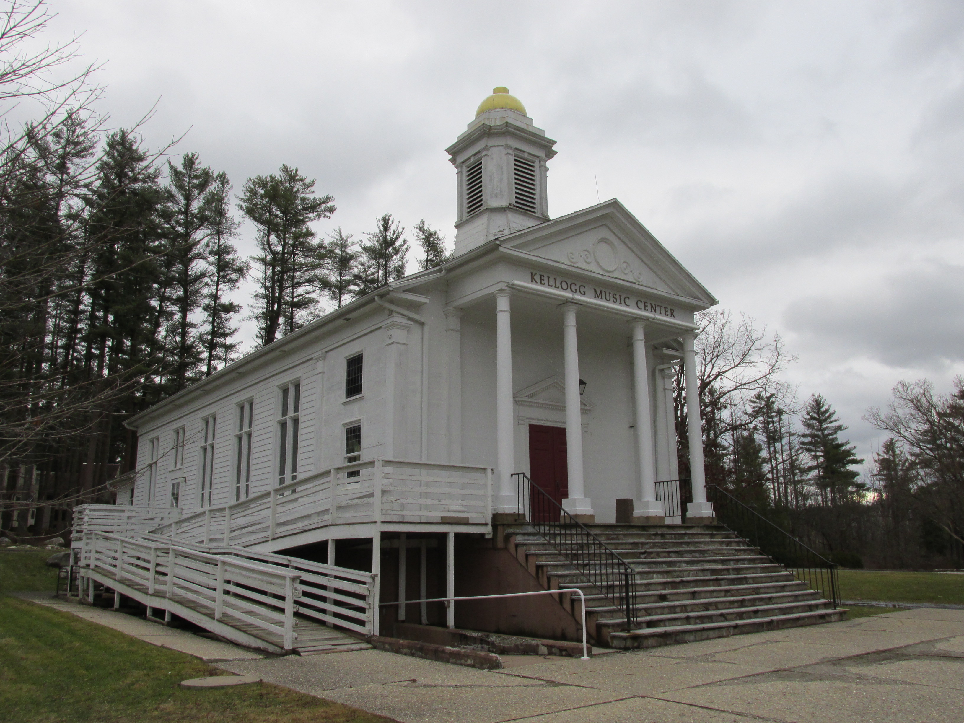 Kellogg Music Center, Bard College at Simons Rock, Great Barrington Massachusetts